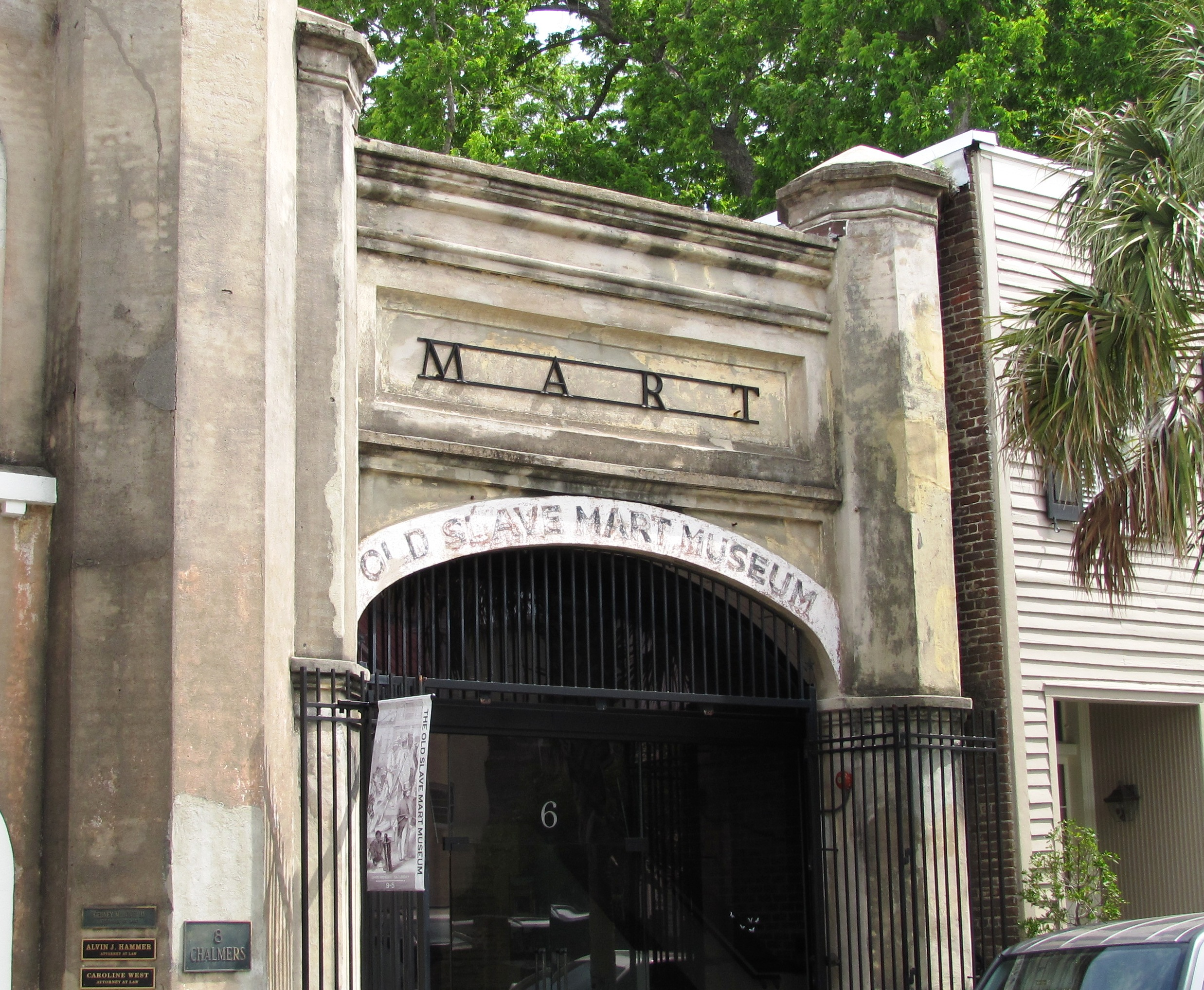 Facade of the Old Slave Mart in Charleston, South Carolina, USA. Built in the late 1850s, this was once the entrance to a slave auction gallery. The building is now a museum.